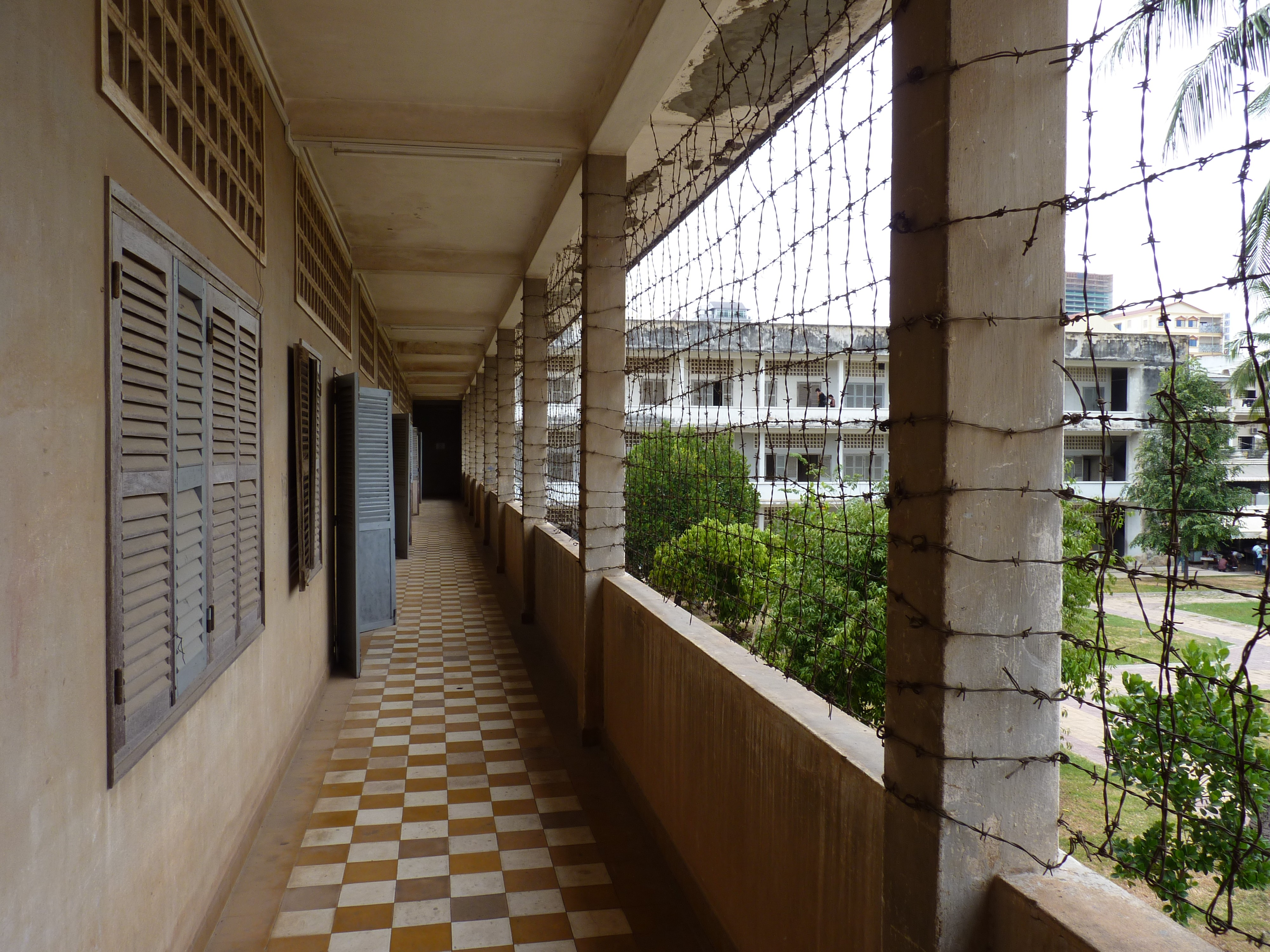 Tuol Sleng museum is Phnom Penh